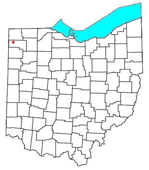 Locator map of the unincorporated community of Farmer in Defiance County, Ohio, United States.